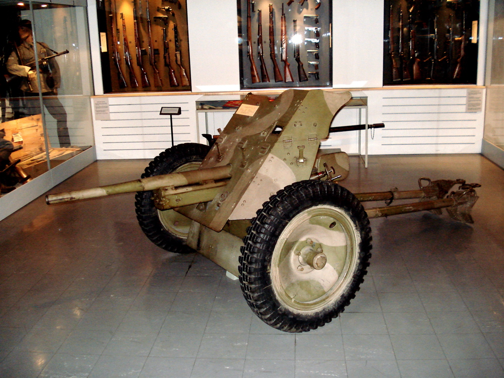 37 mm PstK/37 antitank gun (German 3,7 cm Pak) exhibited in the Military Museum (Sotamuseo) in Helsinki. Photo taken on May 27, 2006. Source: Photo by me, User:Balcer.